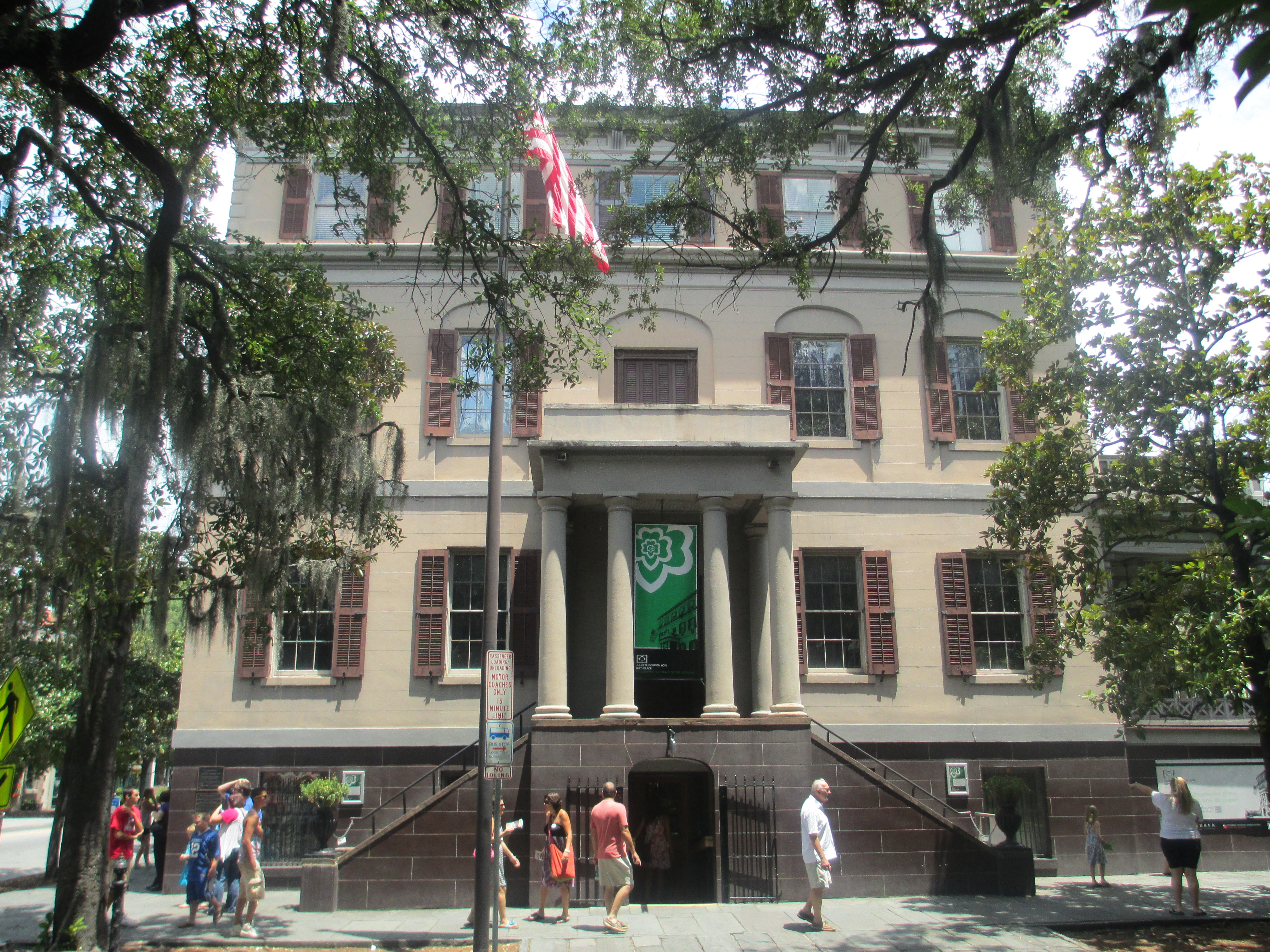 I took photo with Canon camera of Juliette G. Low house in Savannah, GA.